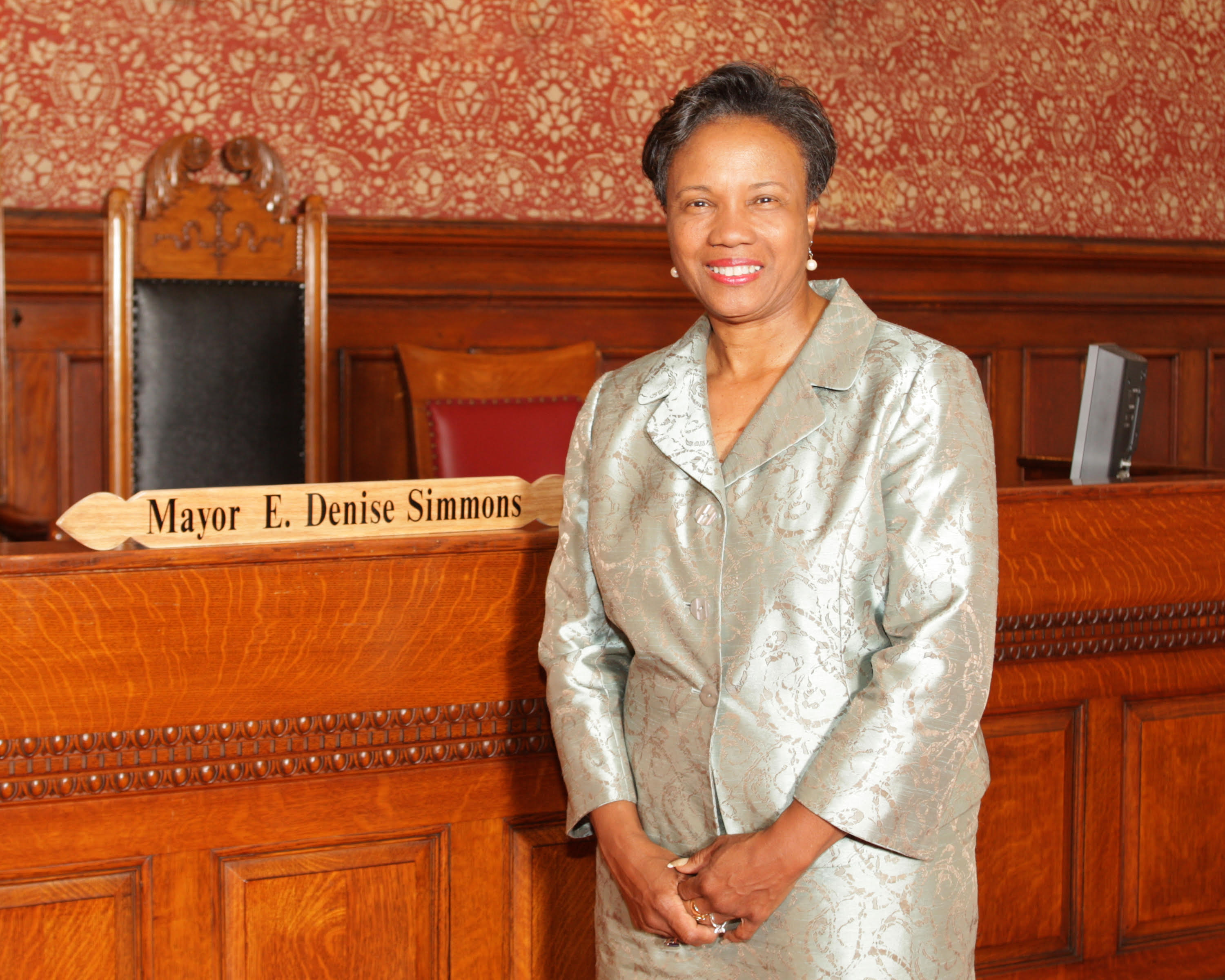 Photo by Stephen Maclone